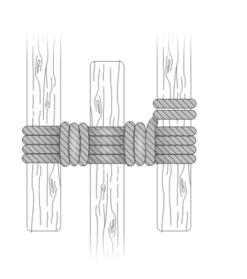 I've created this picture to illustrate an article.